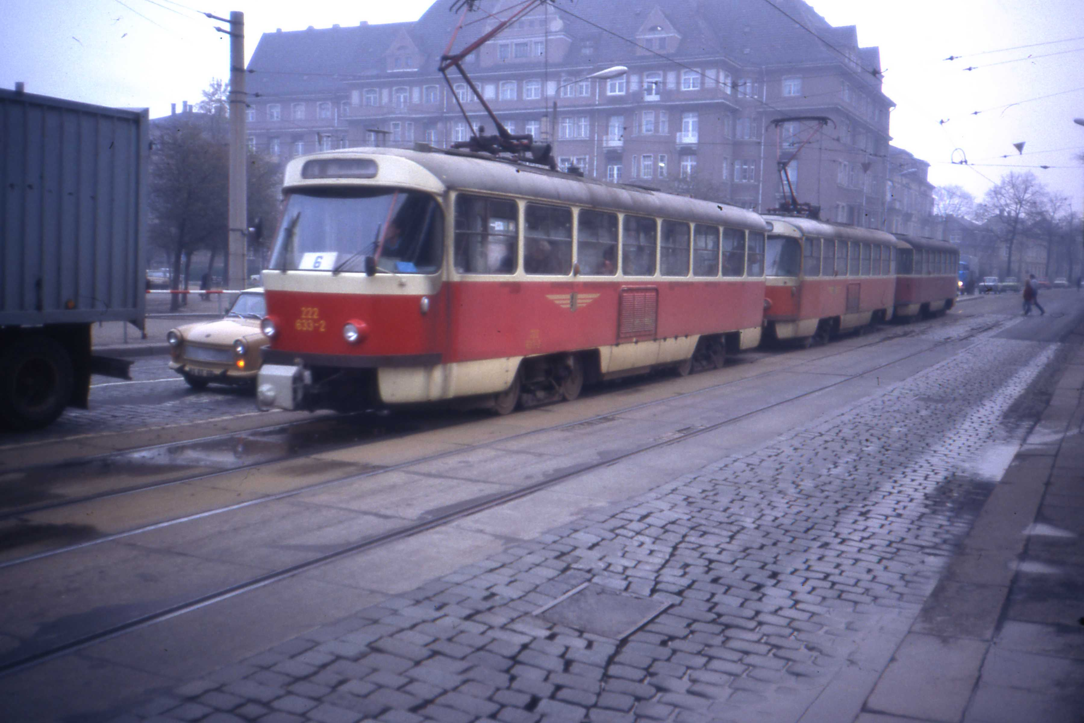 Two Tatra T4D trams with one Tatra B4D trailer in Dresden, former East Germany